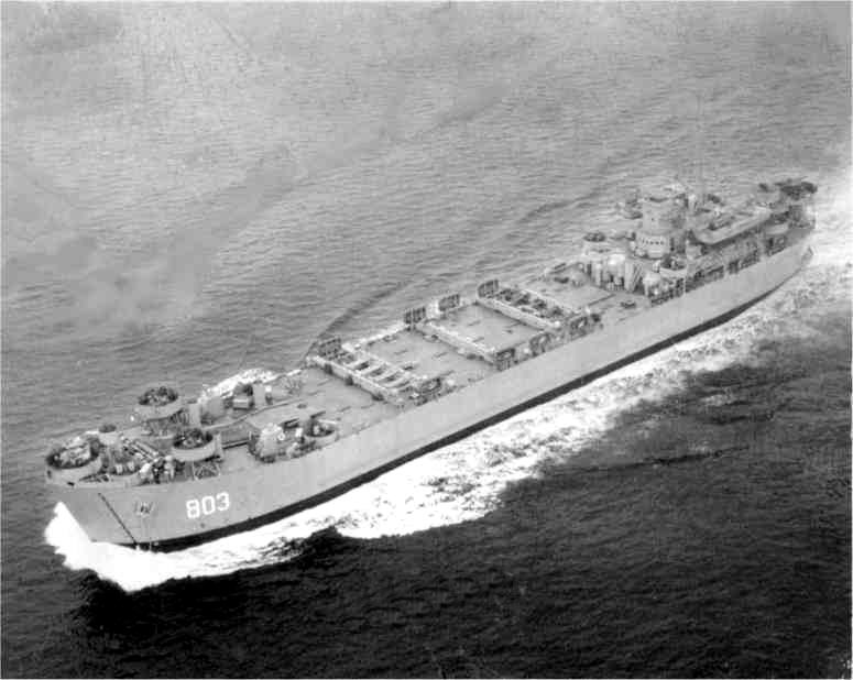 USS Hampden County (LST-803) underway, date and place unknown.